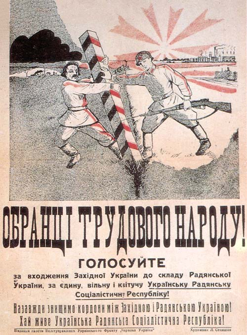 Soviet WWII propaganda poster. The Ukrainian text reads: "Electors of the working people! Vote for joining of Western Ukraine into the Soviet Ukraine, for the united, free and thriving Ukrainian Soviet Socialist Republic. Let's forever eliminate the border between Western and Soviet Ukraine. Long Live the Ukrainian Soviet Socialist Republic!"